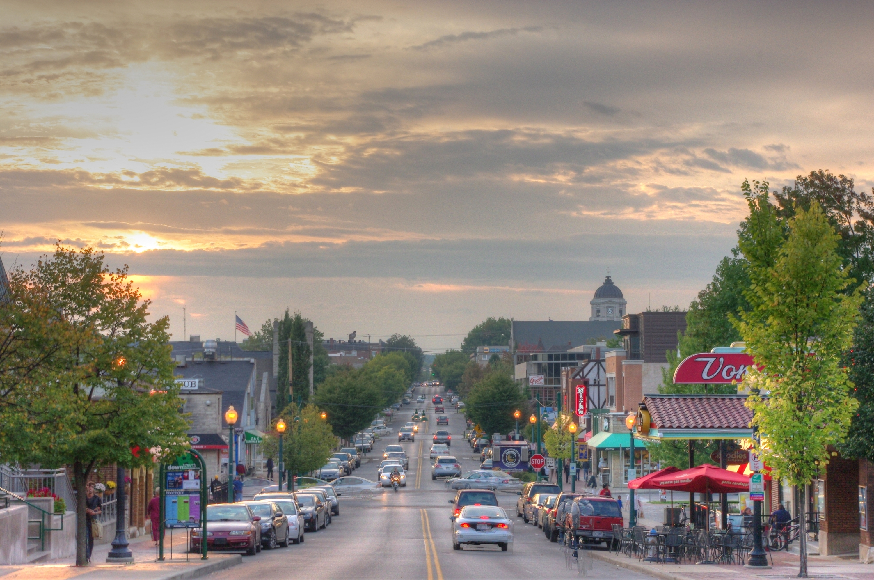 Kirkwood Ave. in Bloomington, IN.